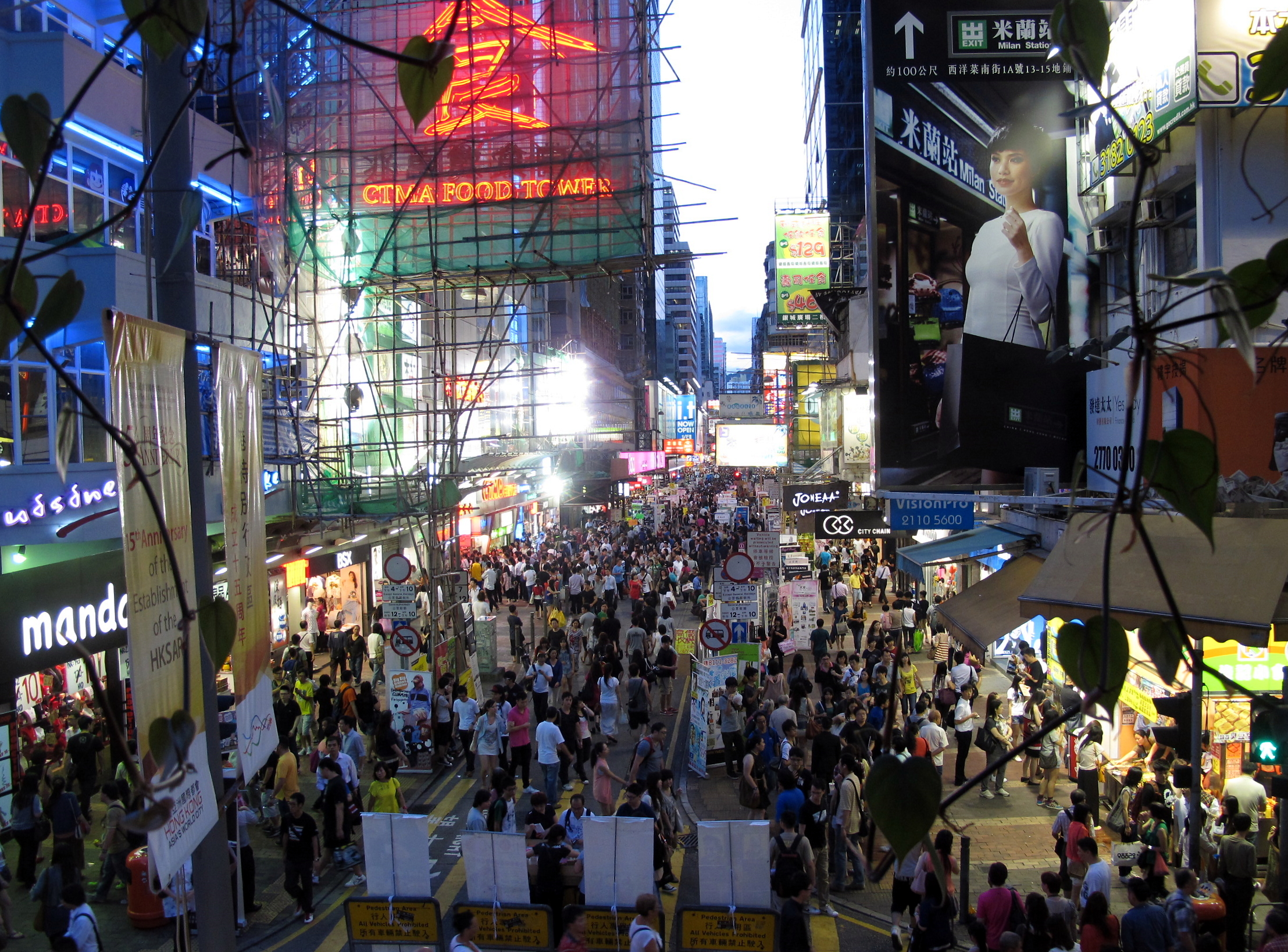 Sai Yeung Choi Street South 西洋菜南街